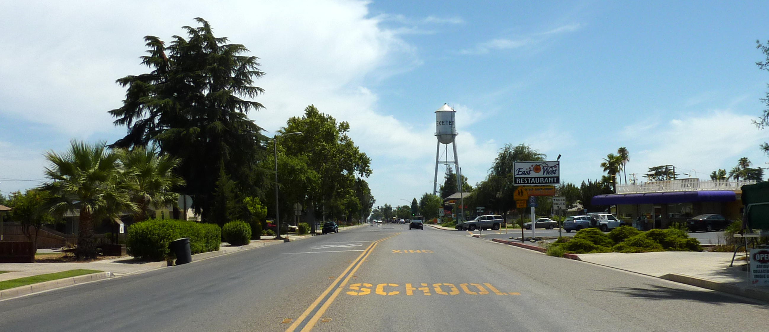 California State Route 65 through Exeter, California, USA.